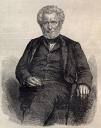 Portrait of Ross Winans (1796-1877), an American inventor, mechanic, and builder of locomotives and railroad machinery.